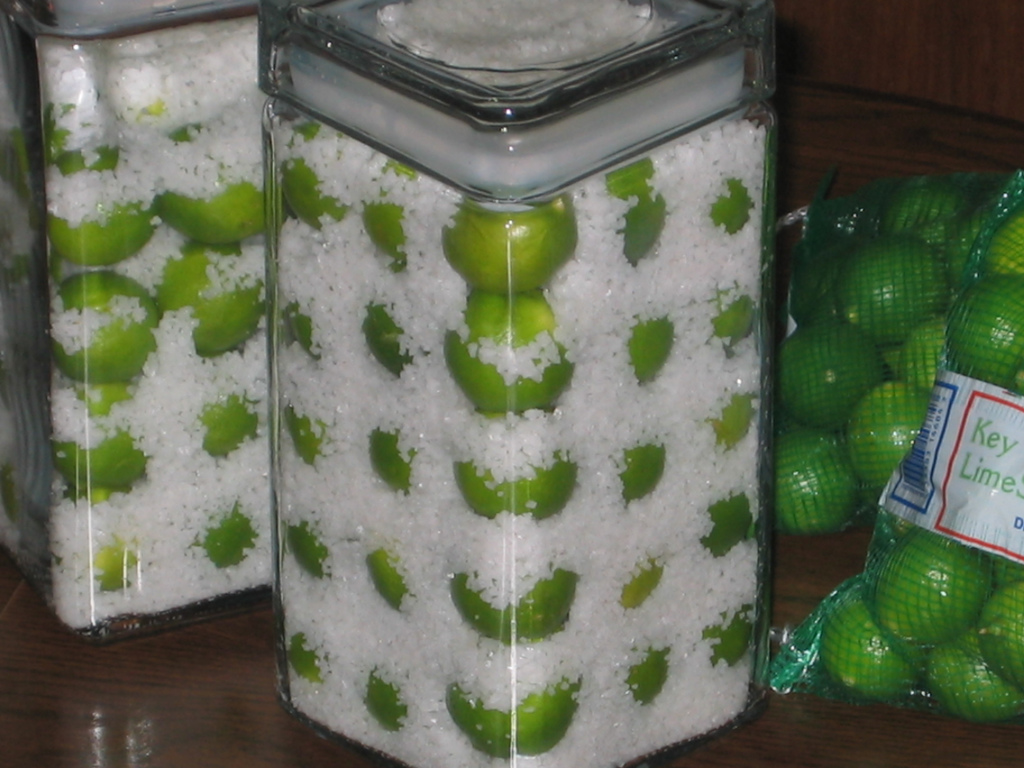 Chanh Muối (preserved limes)